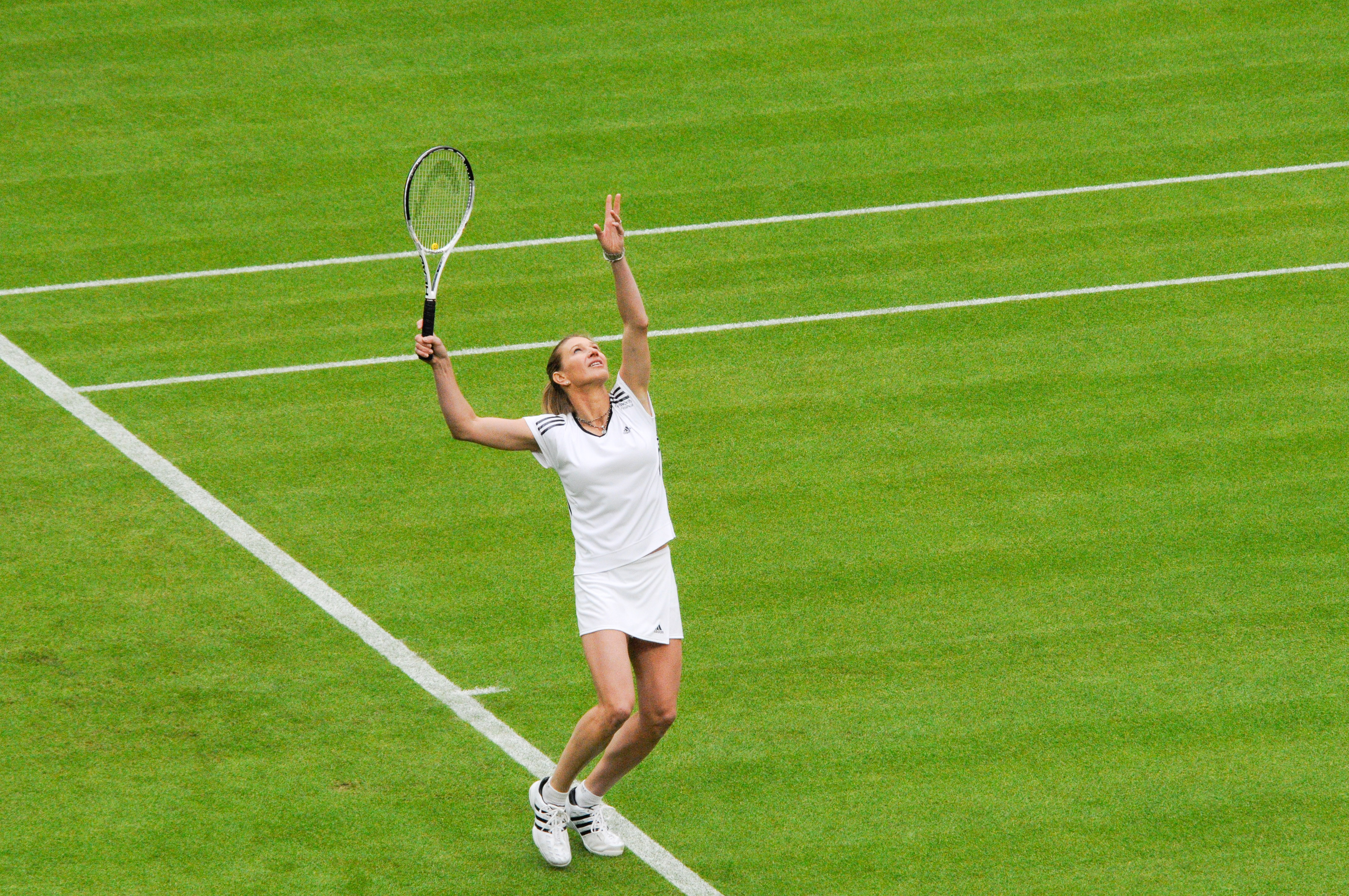 Former World No. 1 German female tennis player Steffi Graf during the special event “A Centre Court Celebration” (event was designed to test a new roof and air management system with live tennis in front of a capacity crowd of 15,000 – Andre Agassi and Steffi Graf played vs. Tim Henman and Kim Clijsters)